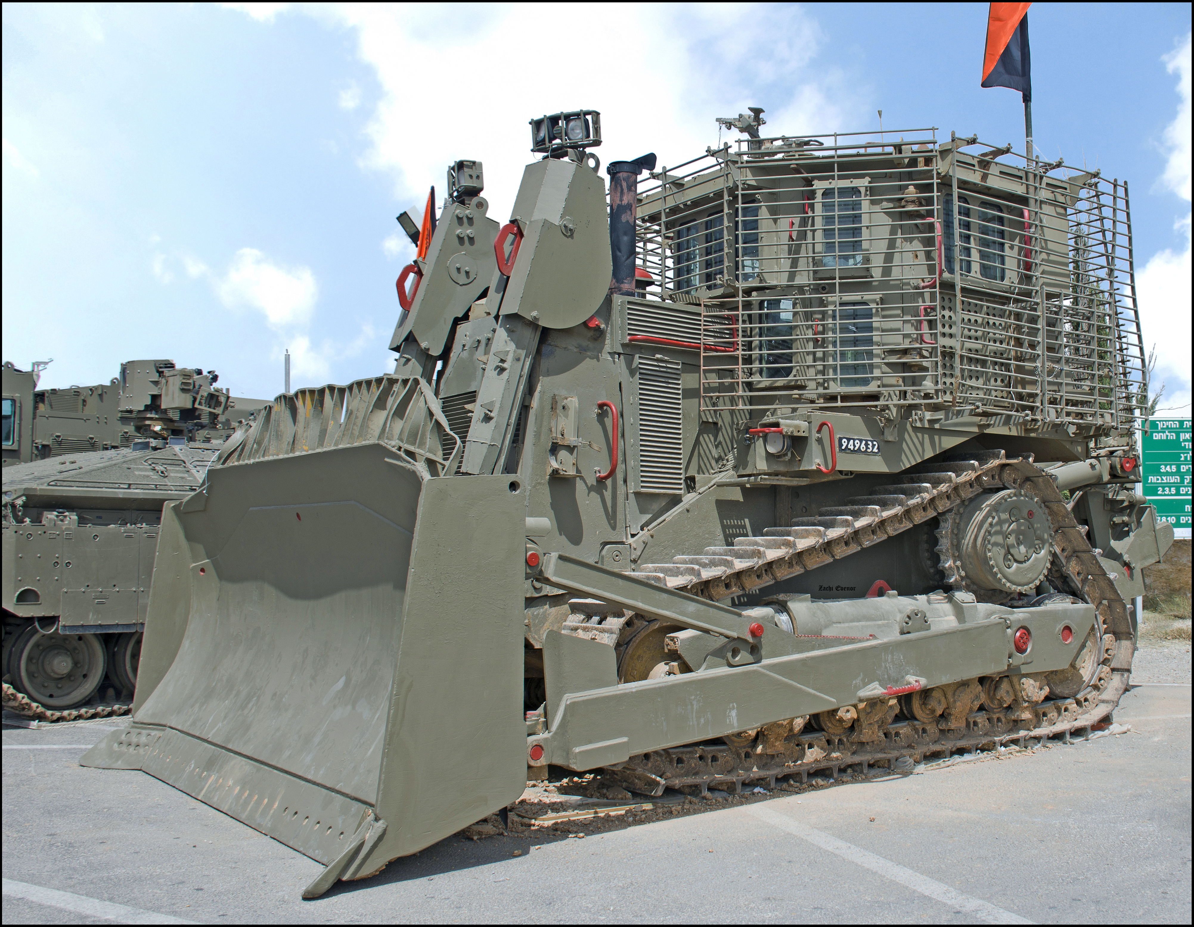 IDF Caterpillar D9R armored bulldozer of the Combat Engineering Corps